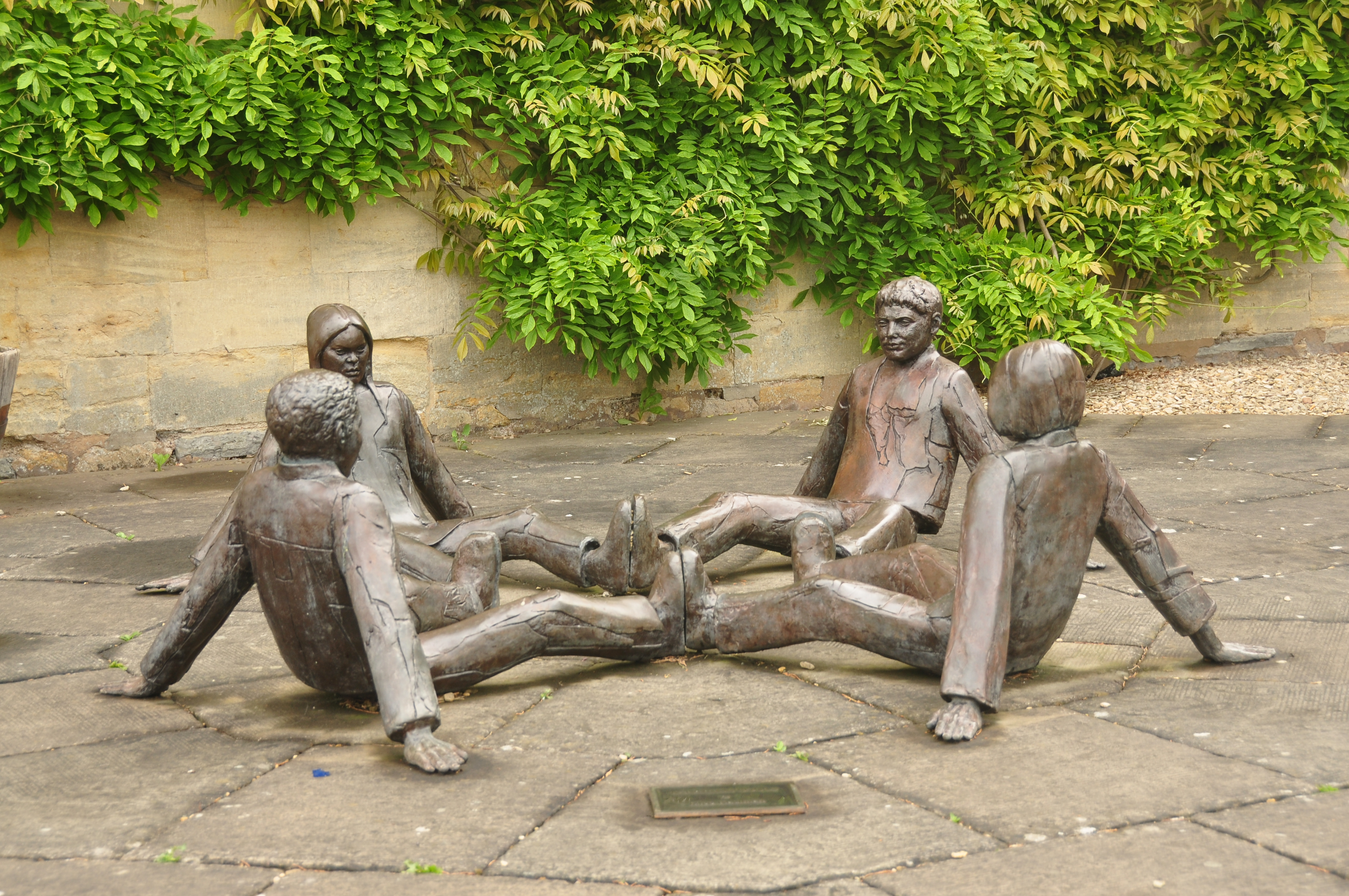 Sculpture in Tewkesbury